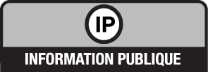 Logo of French Licence « conditions of the reuse of public information that is freely reusable » This license aims at specifying the legal conditions of the re-use of public information that is freely reusable. It particularly specifies the rights to adapt the public information with a view to a commercial activity or not. The rights conceded by the present license do not imply any transfer of property right on the public information. It aims at facilitating the re-use of public information in the context of the development of the information society. According to Article 8 of the 17th November 2003 2003/98/CE directive “The state institutions may authorize the re-use of documents without any conditions or may impose conditions, possibly by the means of a license which would deal with relevant questions. These conditions do not wrongly limit the re-use possibilities and are not used to restrain competition”.